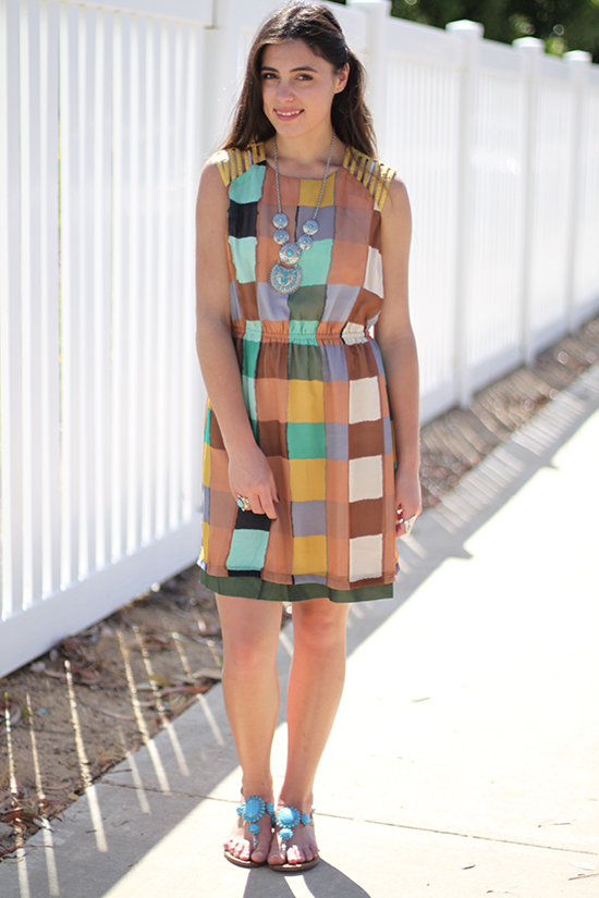 Nothing says sweet like this Multi Patch Dress! With its chic cage-strapped shoulder detailing,subtle back opening, and breezy color palette, this dress was made for the perfect summer outing. Dress is fully lined.